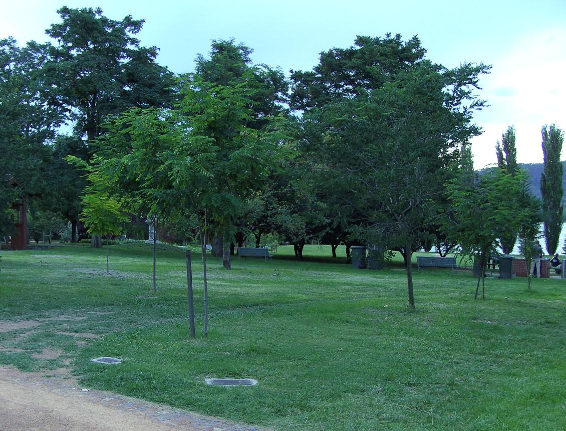 International PEN memorial (grove of trees) Canberra Grove of trees; Main plaque headed, "The spirit dies in all of us who keep silent in the face of tyranny." Officially opened on 17 November 1997 by Gary Humphries. Tree plaques dedicated to: Kenuele Beeson Saro-Wewa (1941-1995), Nigerian playwright Galina Starovoitova and Larissa Ludina, Russia Konka Kuris (1960-1998) Meena Kishwarkanel (1957-1987) Balibo Five: Greg Shackleton, Brian East, Gary Cunningham, Tony Stewart, Malcolm Rennie killed 16 October 1975 at Balibi, East Timor, plus Roger East killed in Dili on 8 December 1975 Robert Walker (1958-1984), Aboriginal poet